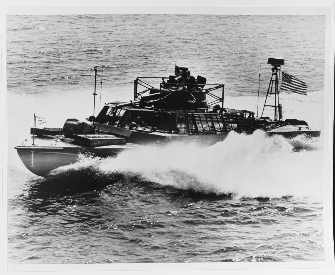 Assault support patrol boat (ASPB), Mark II